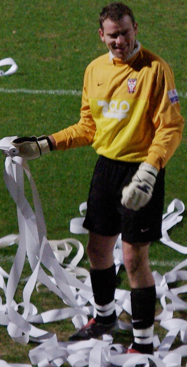 Tom Evans. Image cropped from original at flickr.